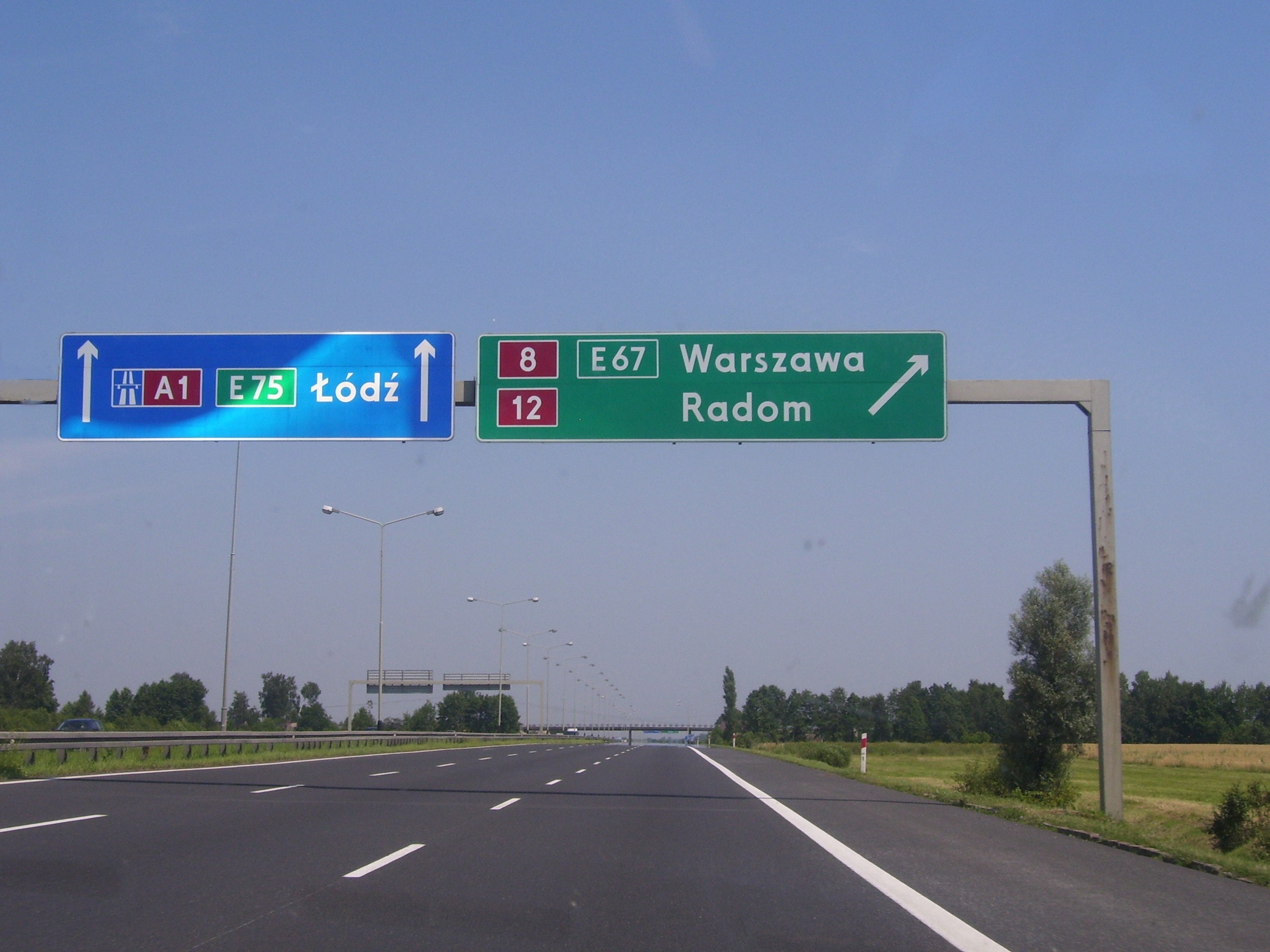 A1&DK8 in Piotrków Trybunalski